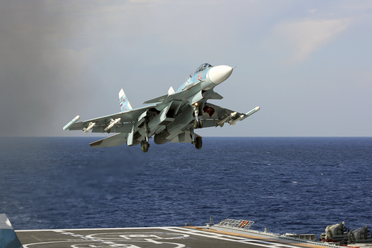 Su-33.